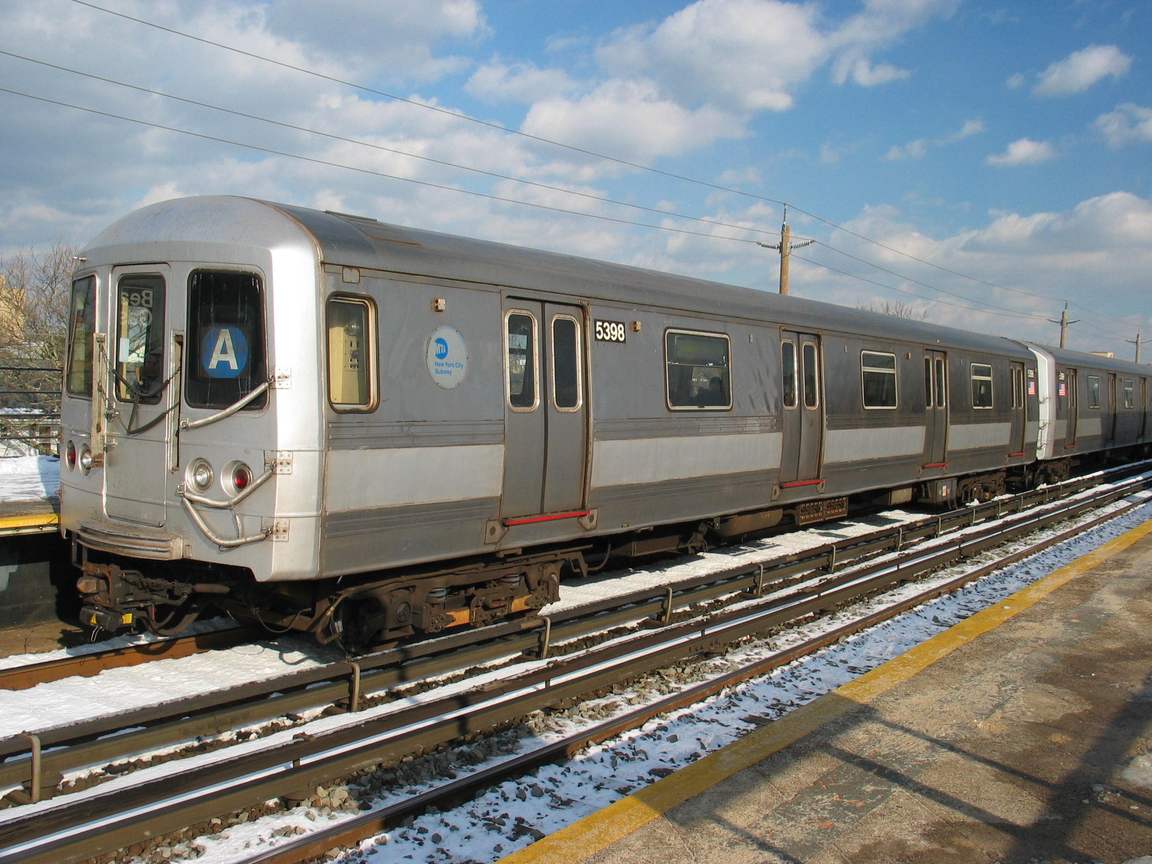 A train R44-type rolling stock at Beach 67th Street and Gaston station on the Far Rockaway branch.